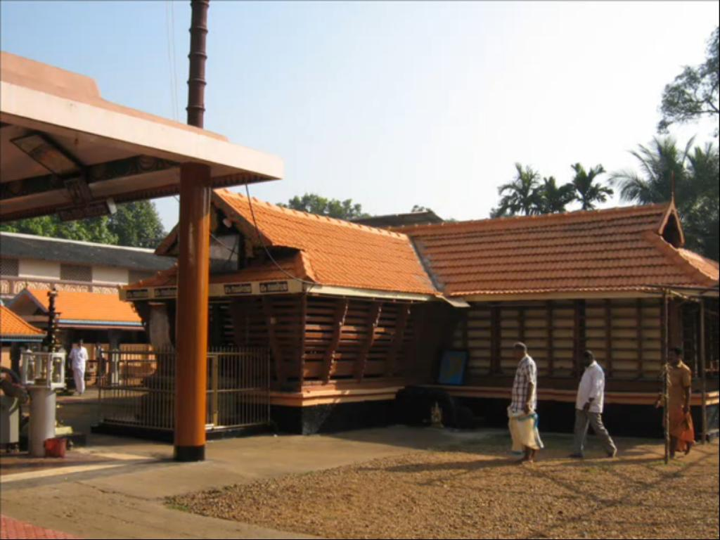 KanjiramattomTemple, Thodupuzha